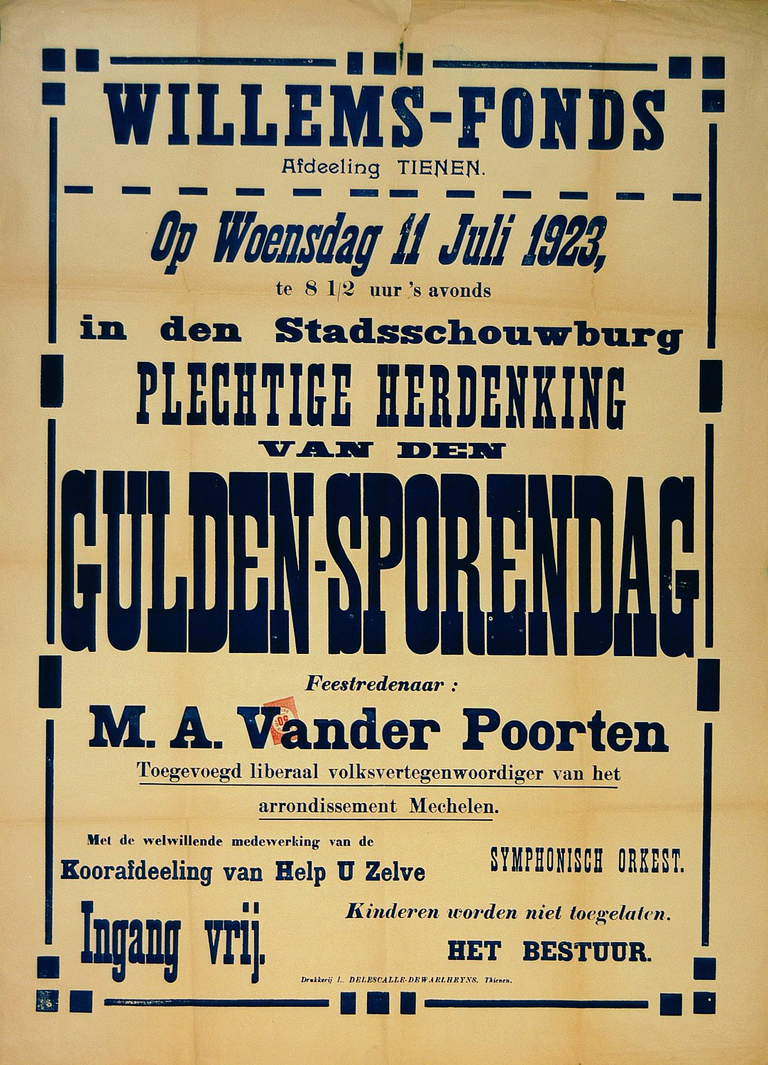 Liberaal Archief Kramersplein 23 9000 Gent